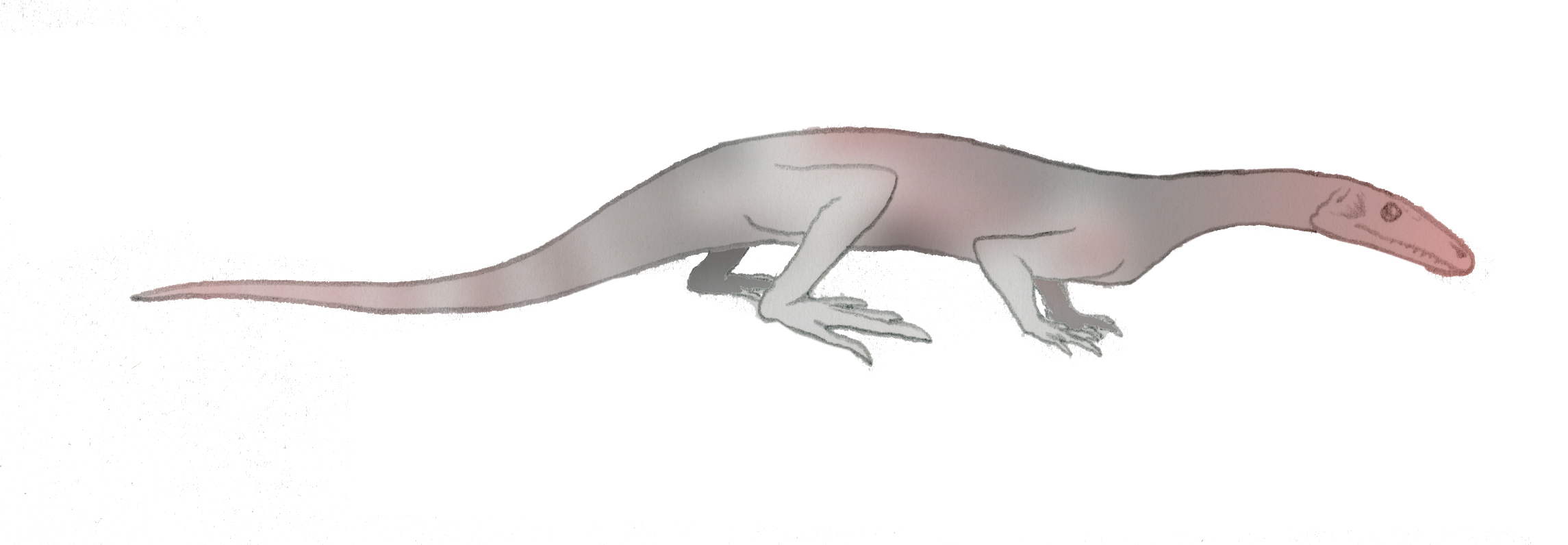 Restoration of Prolacerta broomi, an extinct protorosaur